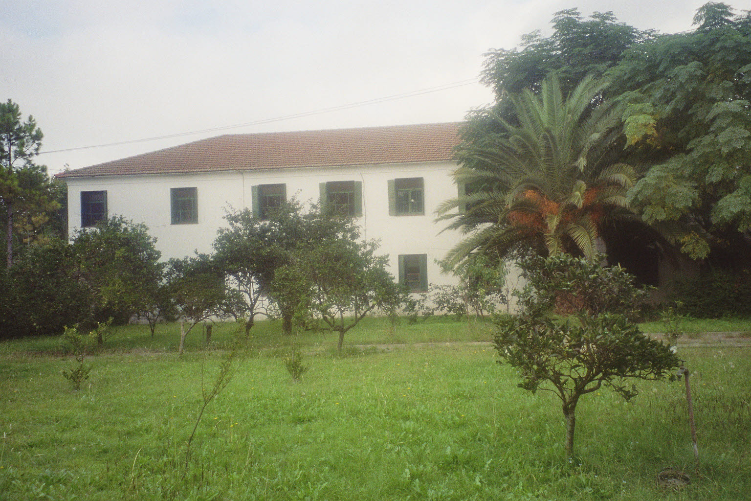 Description Convento San Alfonso Bella Vista Buenos Aires Argentina Source Own work Date April 2006 Author User:Suomi_1973